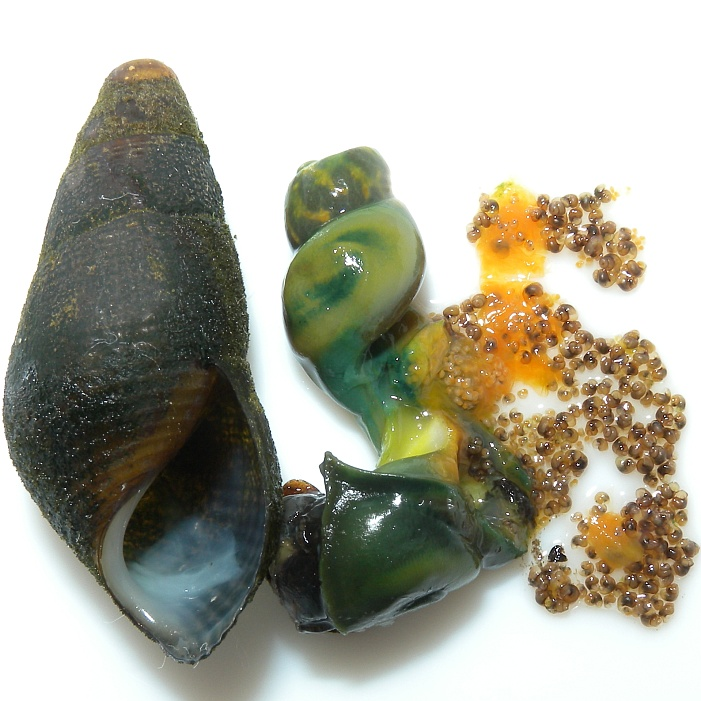 Semisulcospira libertina with embryos, boiled. Locality: Ibi River, Yōrō, Gifu.